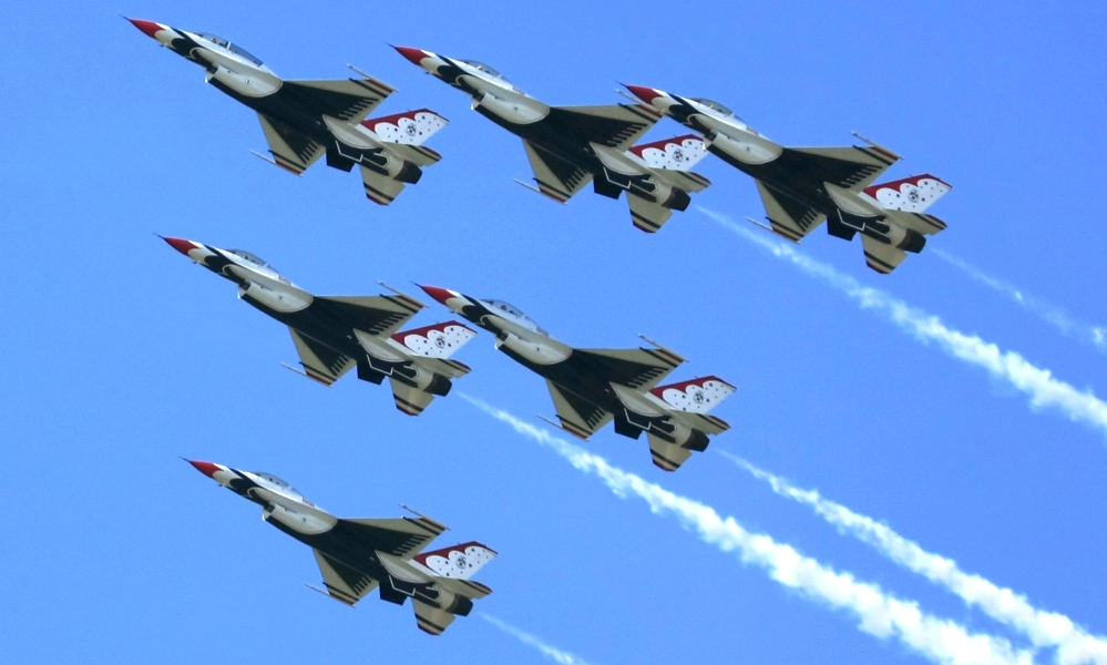 USAF Thunderbirds Flight Demonstration Team 6 plane formation. Photograph by Scott Dunham of air show flight demonstration at Air Power Over Hampton Roads, Langley AFB, April 2009.